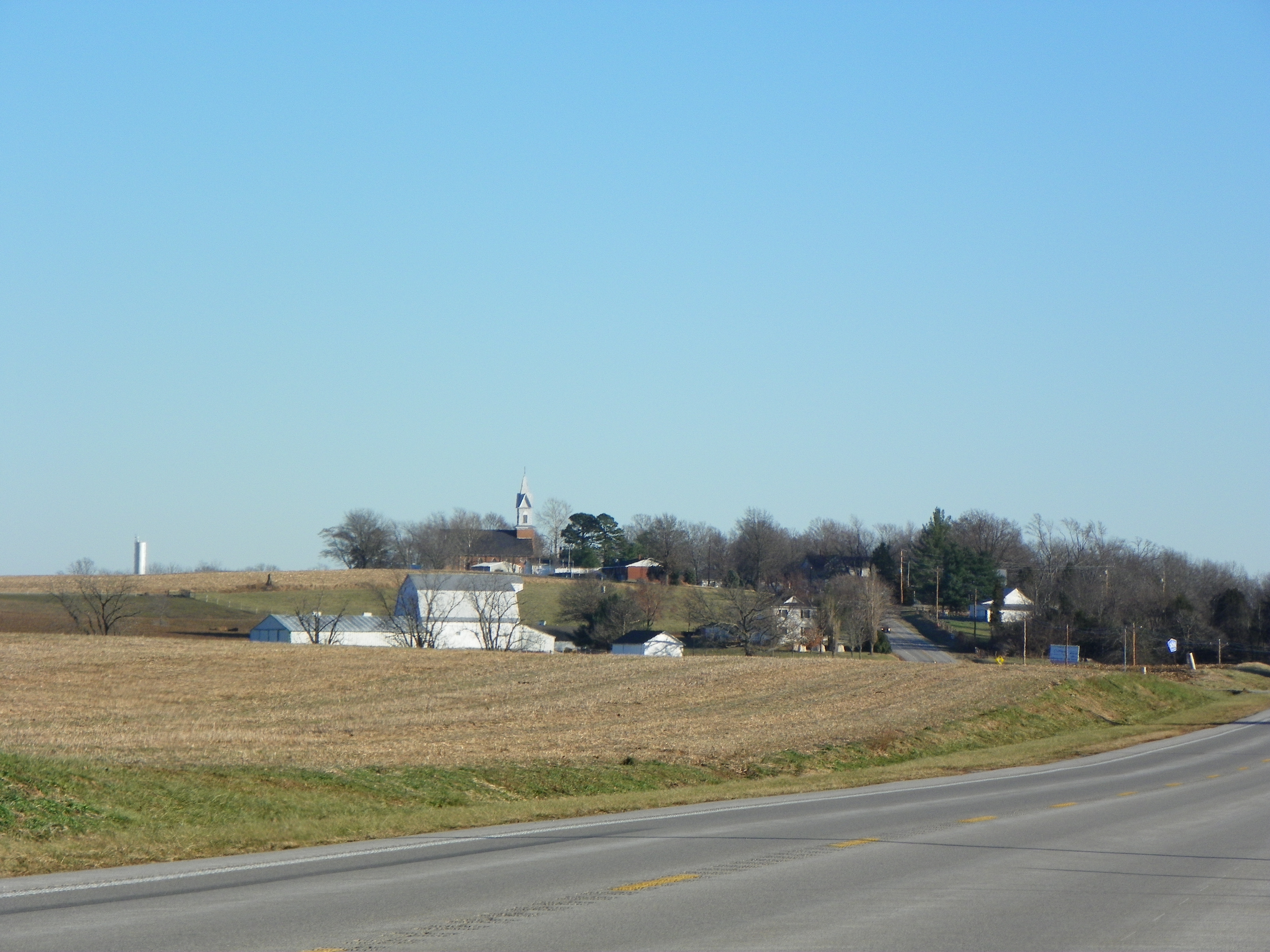 Longtown, Missouri village from Highway 61